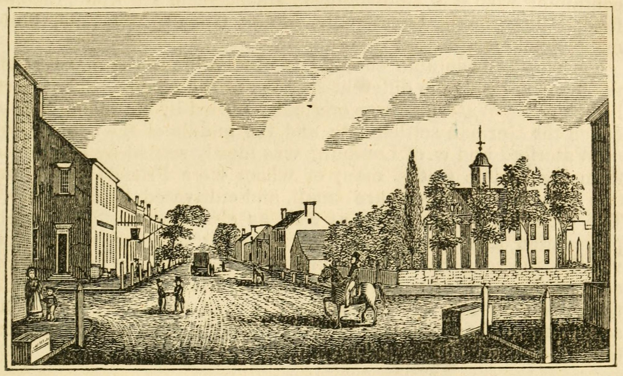 "Central View of Leesburg", an engraving from Henry Howe's Historical Collections of Virginia (1845)